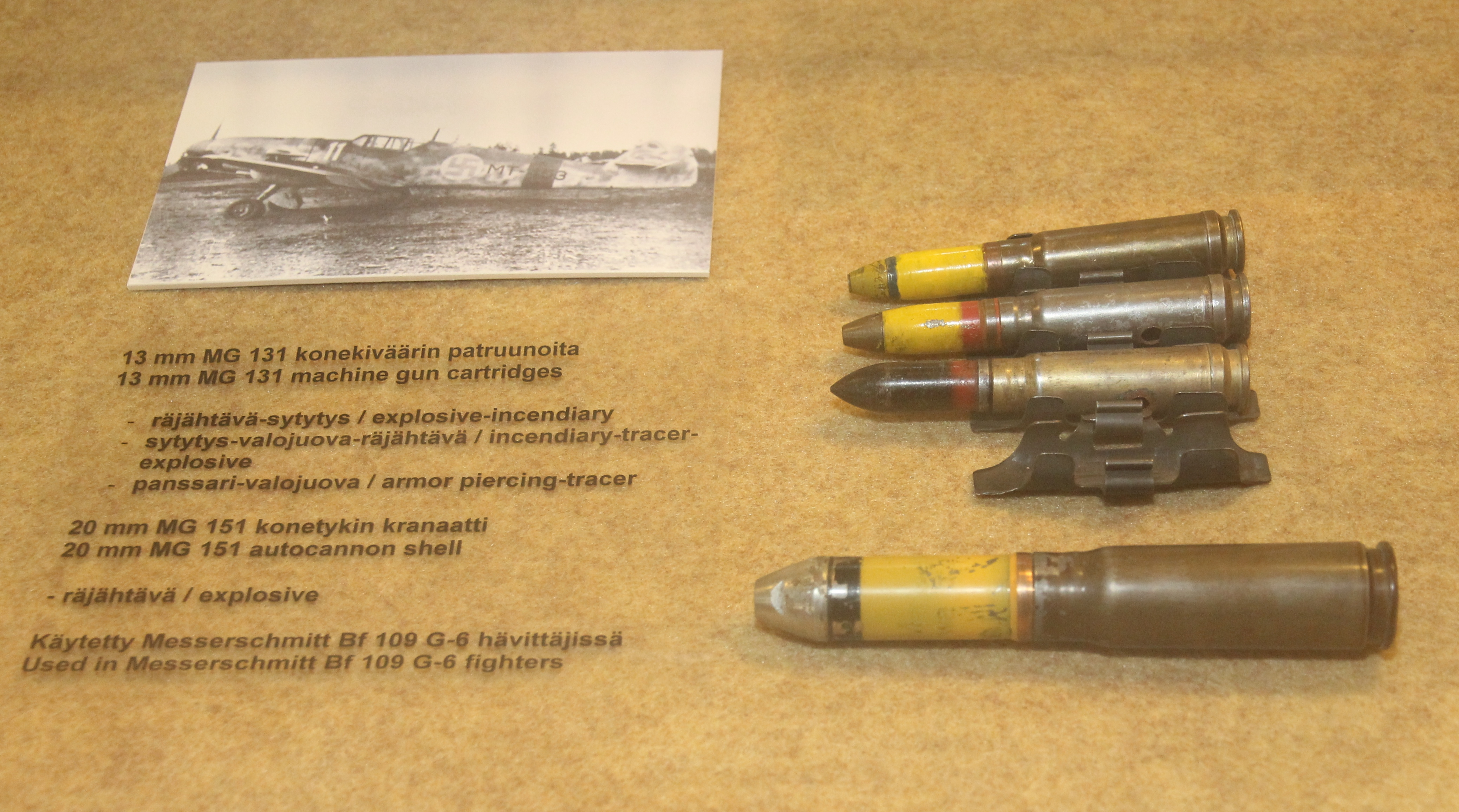 German 13 mm MG 131 aircraft machine gun ammunition belt and 20 mm MG 151/20 cannon shell in the Aviation museum of Central Finland.